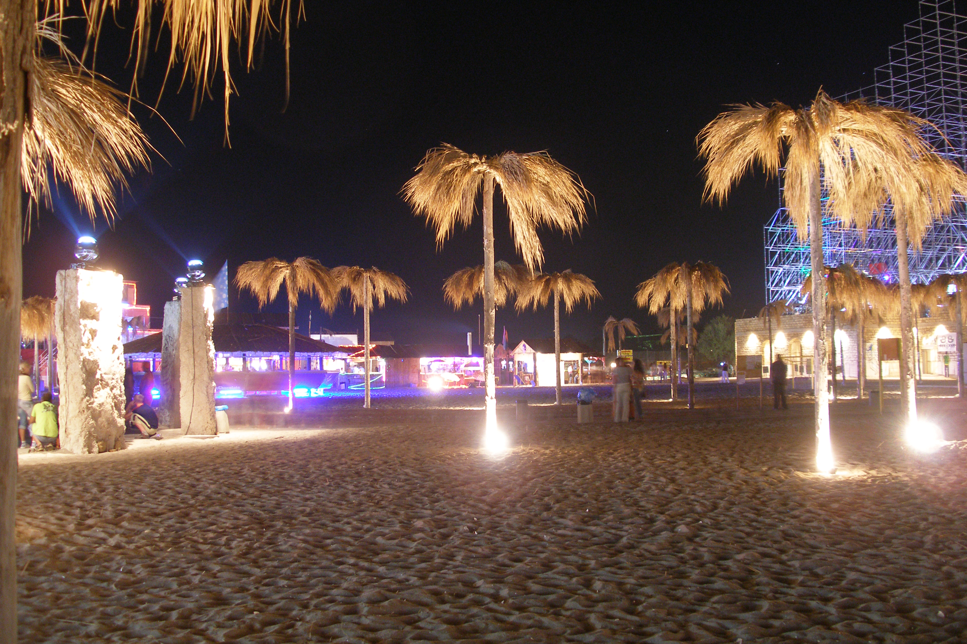 Got to teach and everything you learn will point to the fact that time is eternal. It's 3 a.m. eternal.